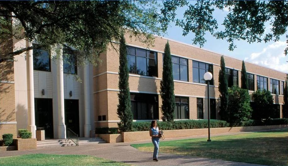 The Hardeman Building at Angelo State State University, San Angelo, Texas.